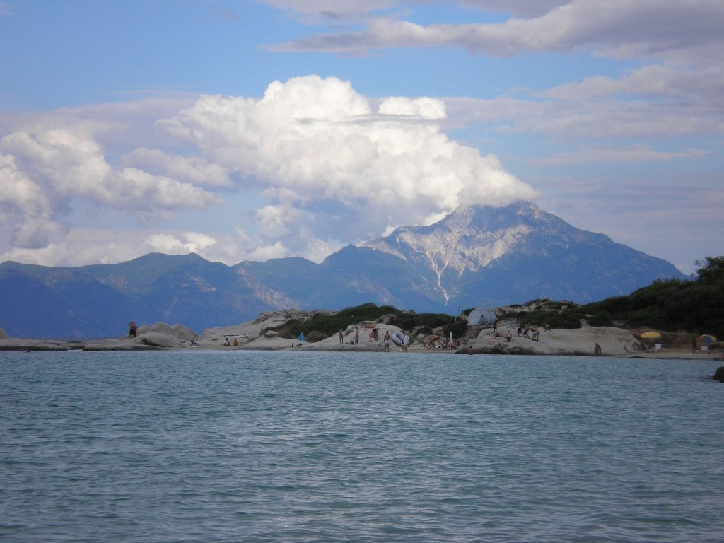 Kavourotripes Beach, Sykia, Sithonia, Chalkidiki, Greece. View on Mount Athos.